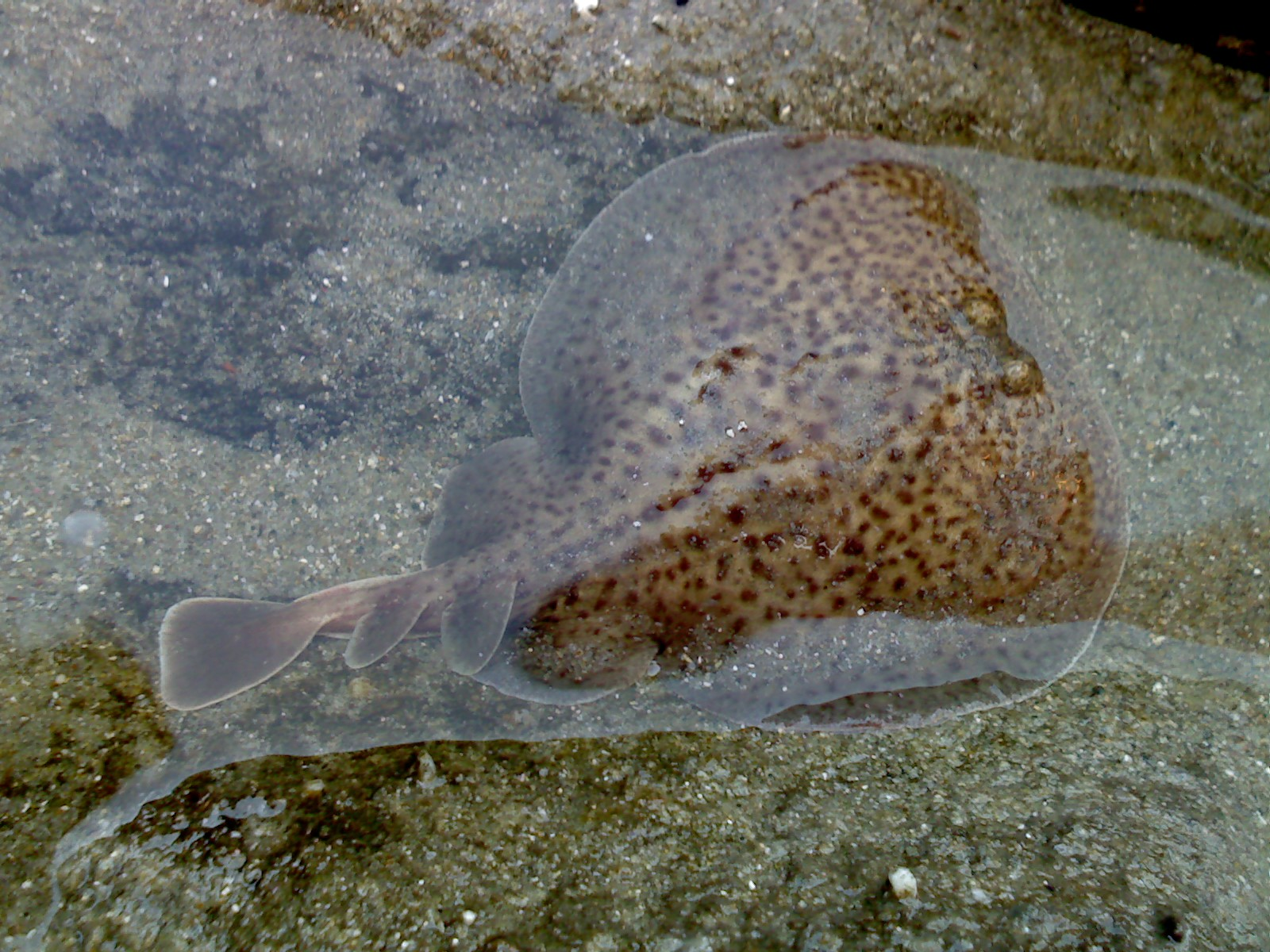 Torpedo marmorata, Gallipoli peninsula, Türkiye.